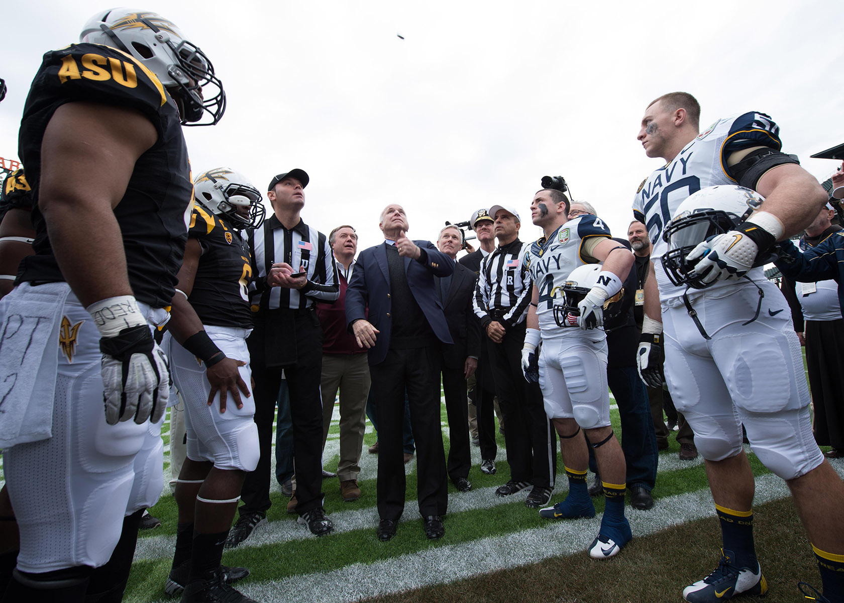 SAN FRANCISCO (Dec. 29, 2012) Secretary of the Navy (SECNAV) the Honorable Ray Mabus participates in the opening coin toss at the Kraft Fight Hunger Bowl game between the U.S. Naval Academy and Arizona State at AT&T Park, San Francisco, California. Arizona State defeated Navy 62-28. (U.S. Navy photo by Chief Mass Communication Specialist Sam Shavers/Released)